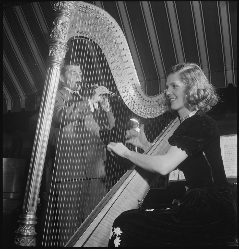 Joe Marsala and Adele Girard, Hickory House, New York, N.Y., between 1946 and 1948] - Gottlieb, William P., 1917-, photographer. 1 negative : b&w ; 2 1/4 x 2 1/4 in. Notes: Gottlieb Collection Assignment No. 226 Reference print available in Music Division, Library of Congress. Purchase William P. Gottlieb Forms part of: William P. Gottlieb Collection (Library of Congress). Subjects: Marsala, Joe, 1907-1978 Girard, Adele Jazz musicians--1940-1950. Women jazz musicians--1940-1950. Clarinetists--1940-1950. Harpists--1940-1950. Fifty-second Street (New York, N.Y.)--1940-1950. Hickory House Format: Portrait photographs--1940-1950. Group portraits--1940-1950. Film negatives--1940-1950. Rights Info: Mr. Gottlieb has dedicated these works to the public domain, but rights of privacy and publicity may apply. Repository: (negative) Library of Congress, Prints & Photographs Division, Washington D.C. 20540 USA, (reference print) Library of Congress, Music Division, Washington D.C. 20540 USA, Part Of: William P. Gottlieb Collection (DLC) 99-401005 General information about the Gottlieb Collection is available at Persistent URL: Call Number: LC-GLB23- 0607